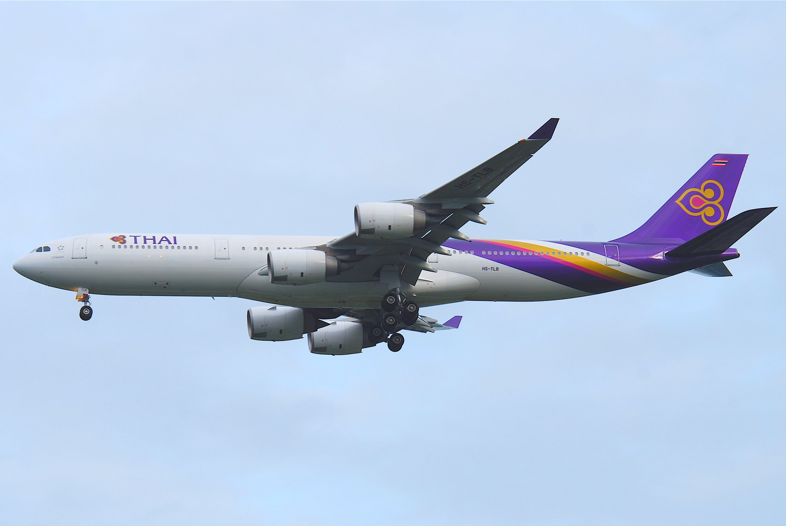 Thai Airways International Airbus A340-500; HS-TLB@BKK;30.07.2011/613av